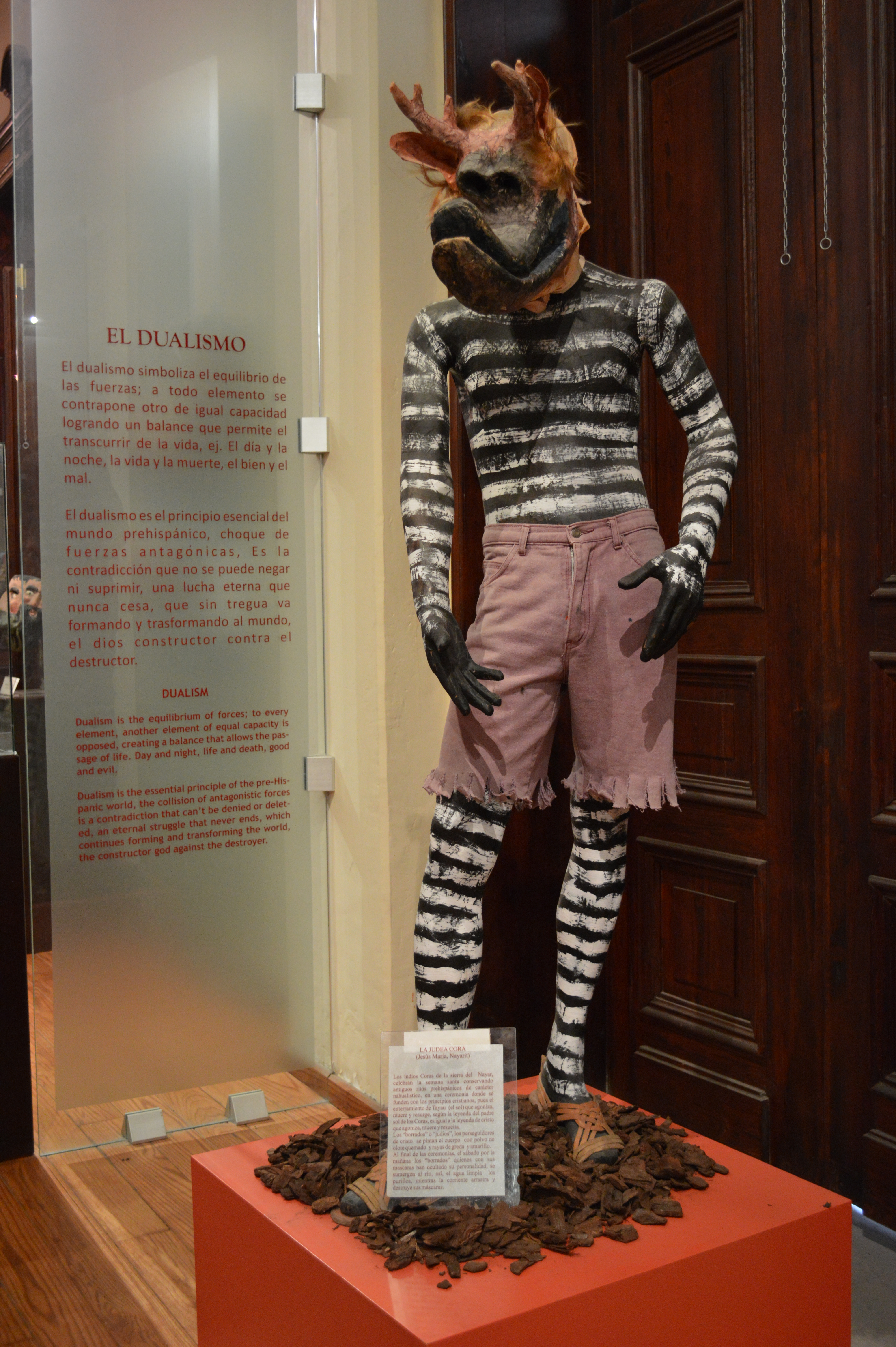 Mannequin of a Cora Judas dancer with mask at the Museo Nacional de la Máscara in San Luis Potosí, Mexico